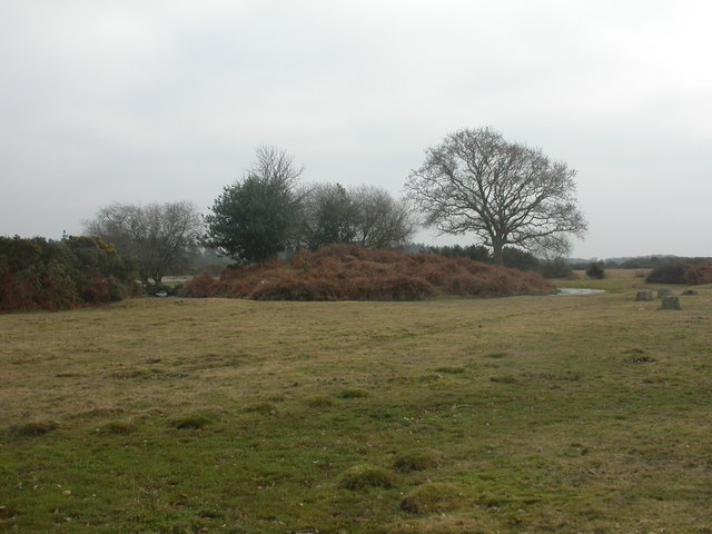 Fritham, The Butt Bowl barrow & Scheduled Ancient Monument on Janesmoor Plain. For dimensions